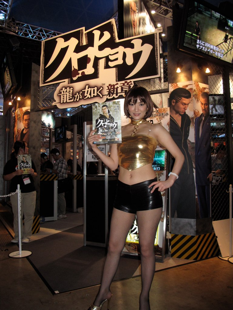 Taken on September 17, 2010 Canon PowerShot G10